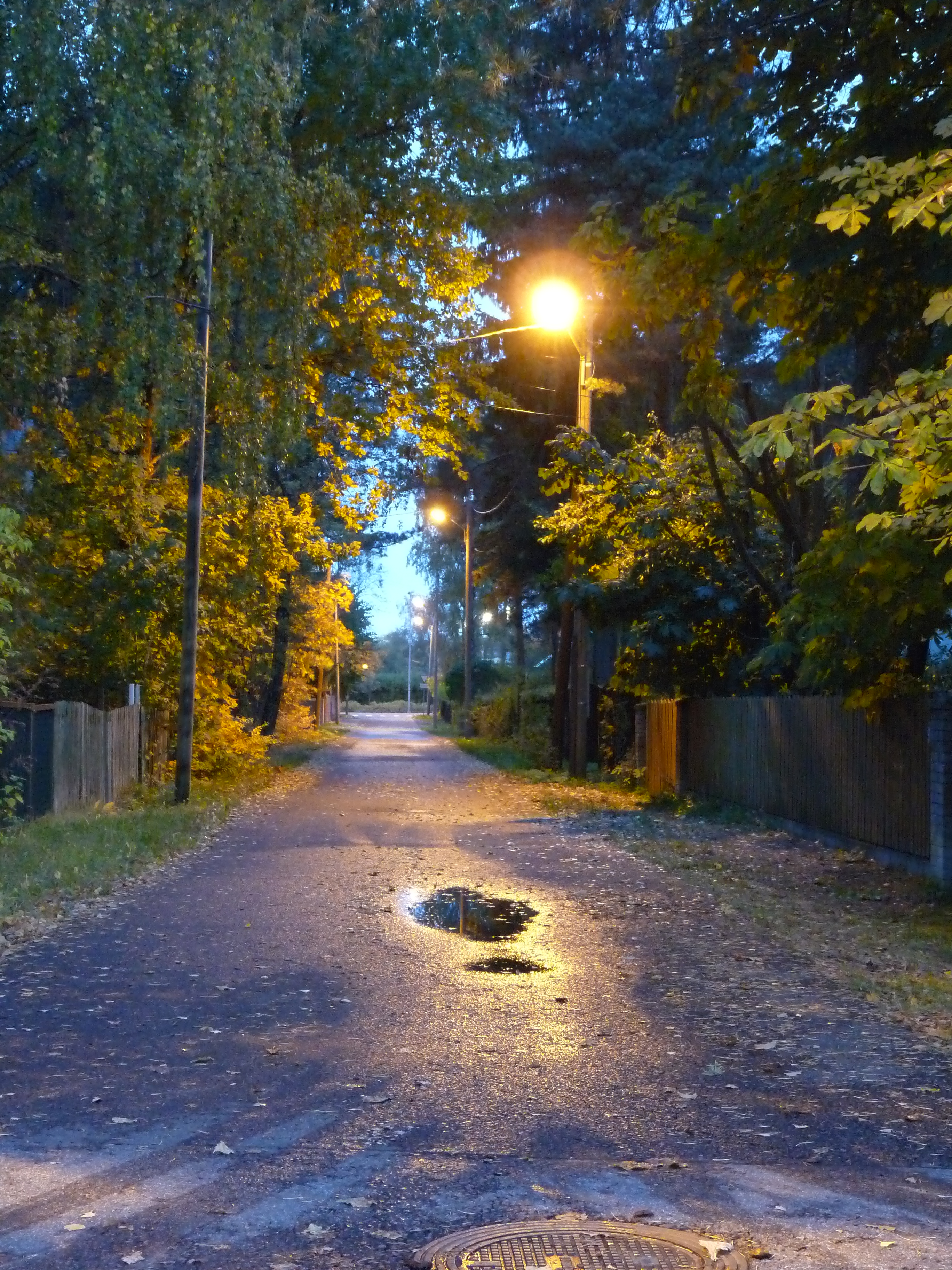 Pohla street in Tallinn, Estonia